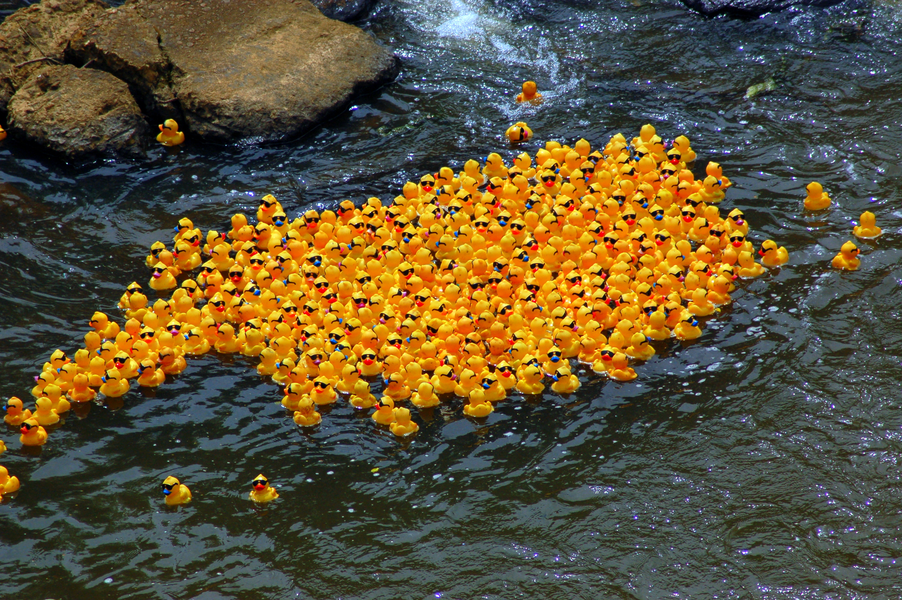 A gaggle of rubber ducks during the 2009 edition of the annual Ken-Ducky Derby in Greenville, SC